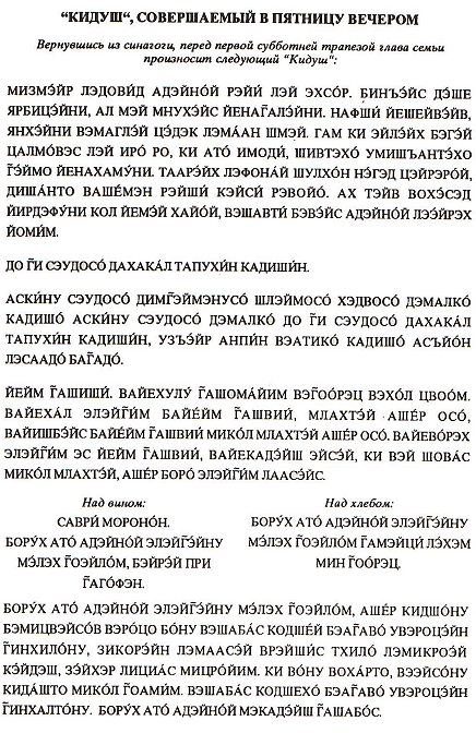 kidush - text